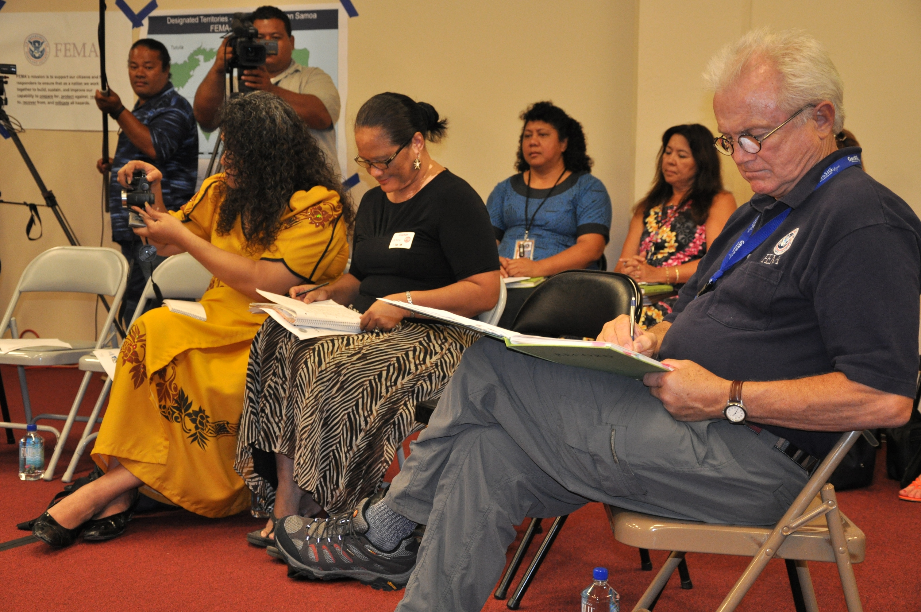 Pago Pago, AS, November 6, 2009 -- James Shebl, external affairs officer, foreground, takes notes as a newspaper reporter shoots still photos and American Samoa government TV crew videotapes news conference updating progress of recovery since the September 29th earthquake, tsunami and flooding disaster. It was the first news event at the Joint Field Office where employees of FEMA, federal partners and the American Samoa government work side-by-side to help survivors recover. Richard O'Reilly/FEMA.